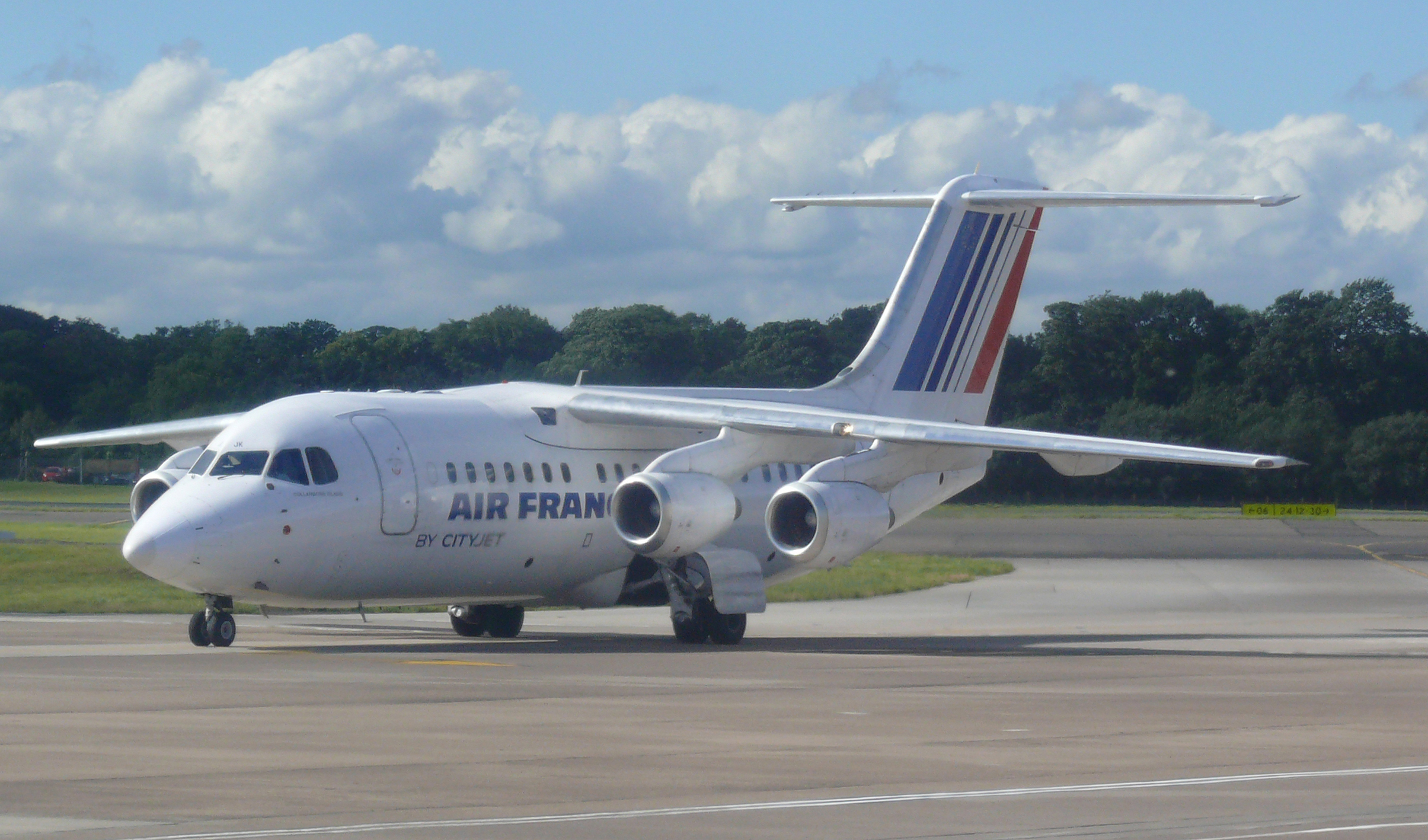 Air France (CityJet) Avro 146-RJ85 EI-RJK at Turnhouse Edinburgh Airport.